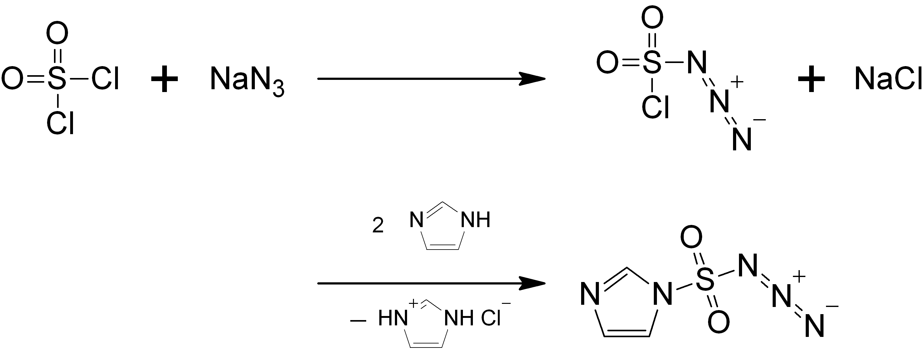 Preparation of imidazole-1-sulfonyl azide. E. D. Goddard-Borger and R. V. Stick. "An Efficient, Inexpensive, and Shelf-Stable Diazotransfer Reagent: Imidazole-1-sulfonyl Azide Hydrochloride". Organic Letters 9 (19): 3797-3800.